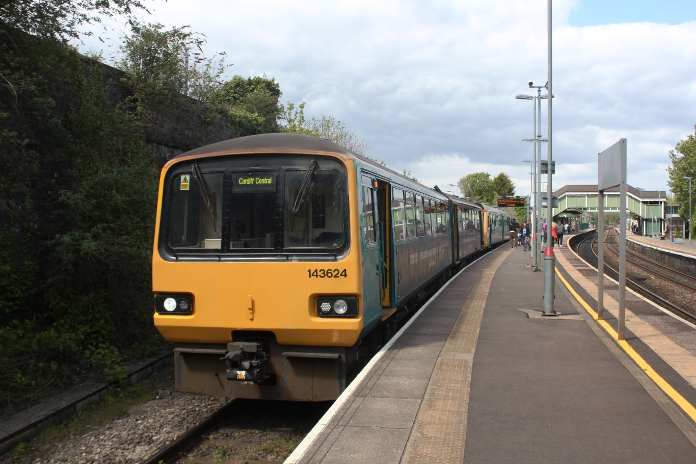 A Transport for Wales service in platform 1A at Bridgend. 143624 and 142075 will by going to Cardiff Central via Barry.